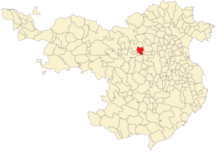 Maiá de Montcal